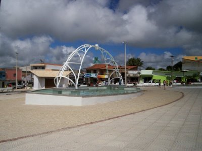 guaracy square